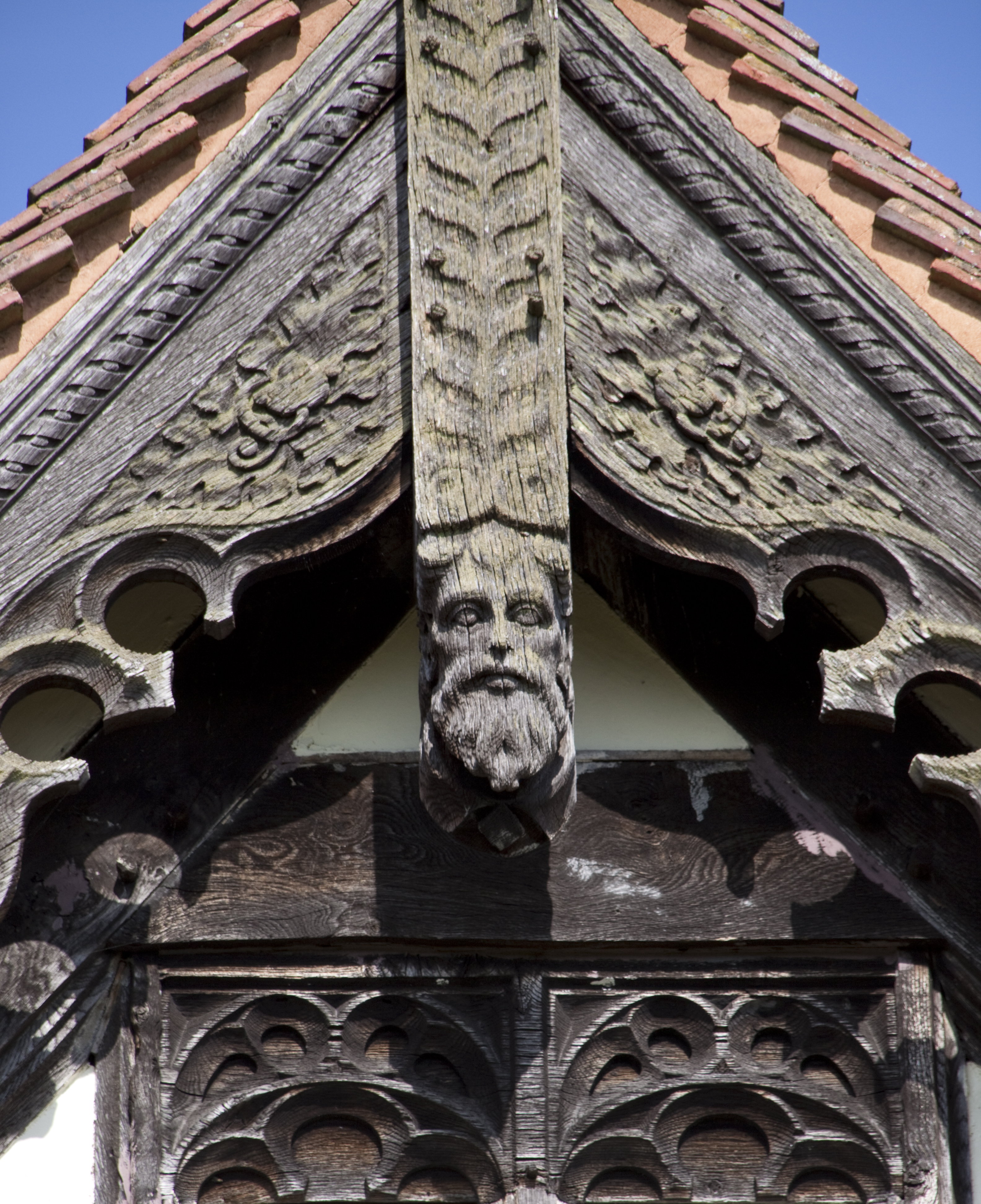 Carving Wightwick Manor 1